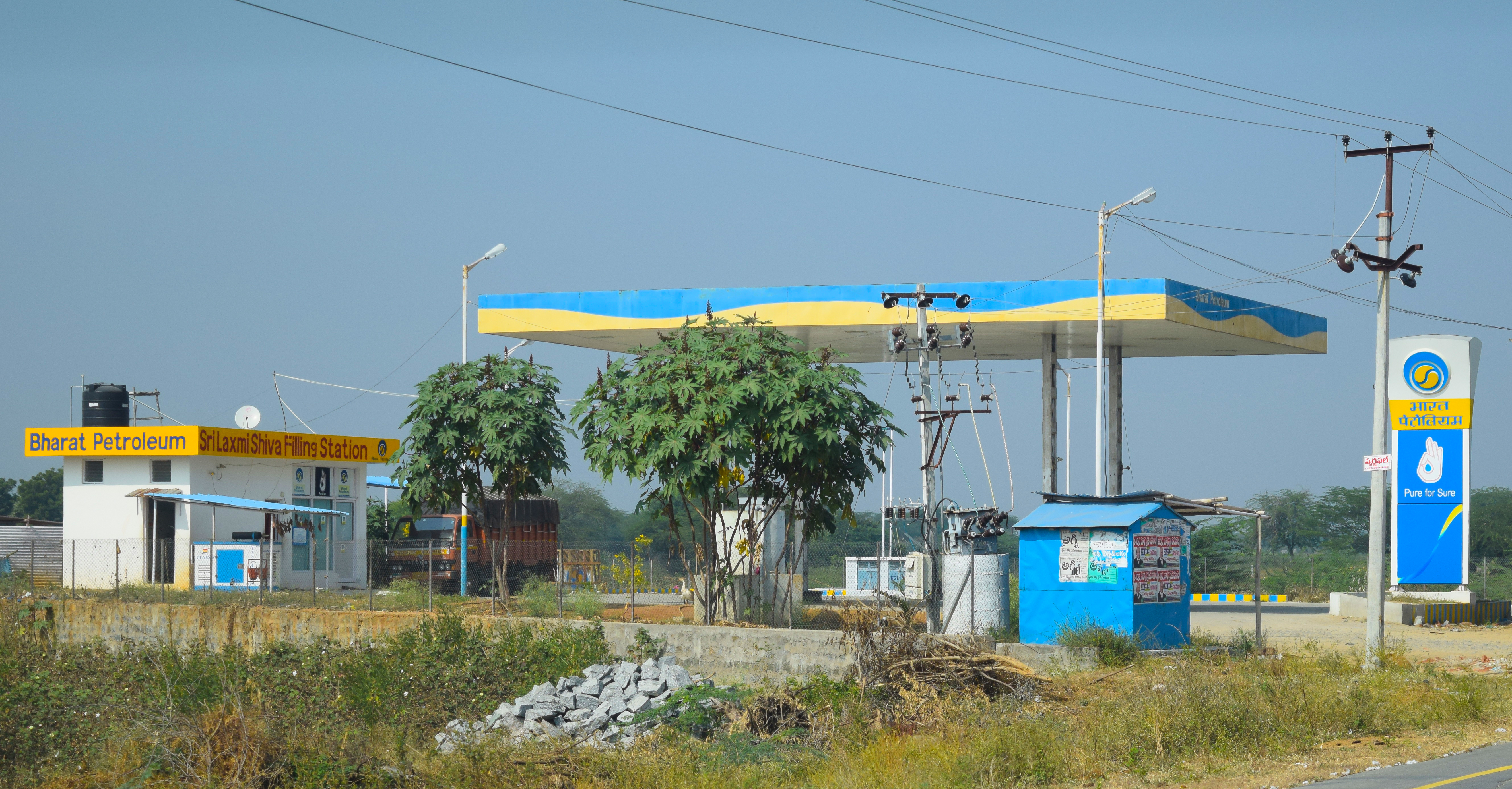 A Petrol filling station of BPCL in Warangal